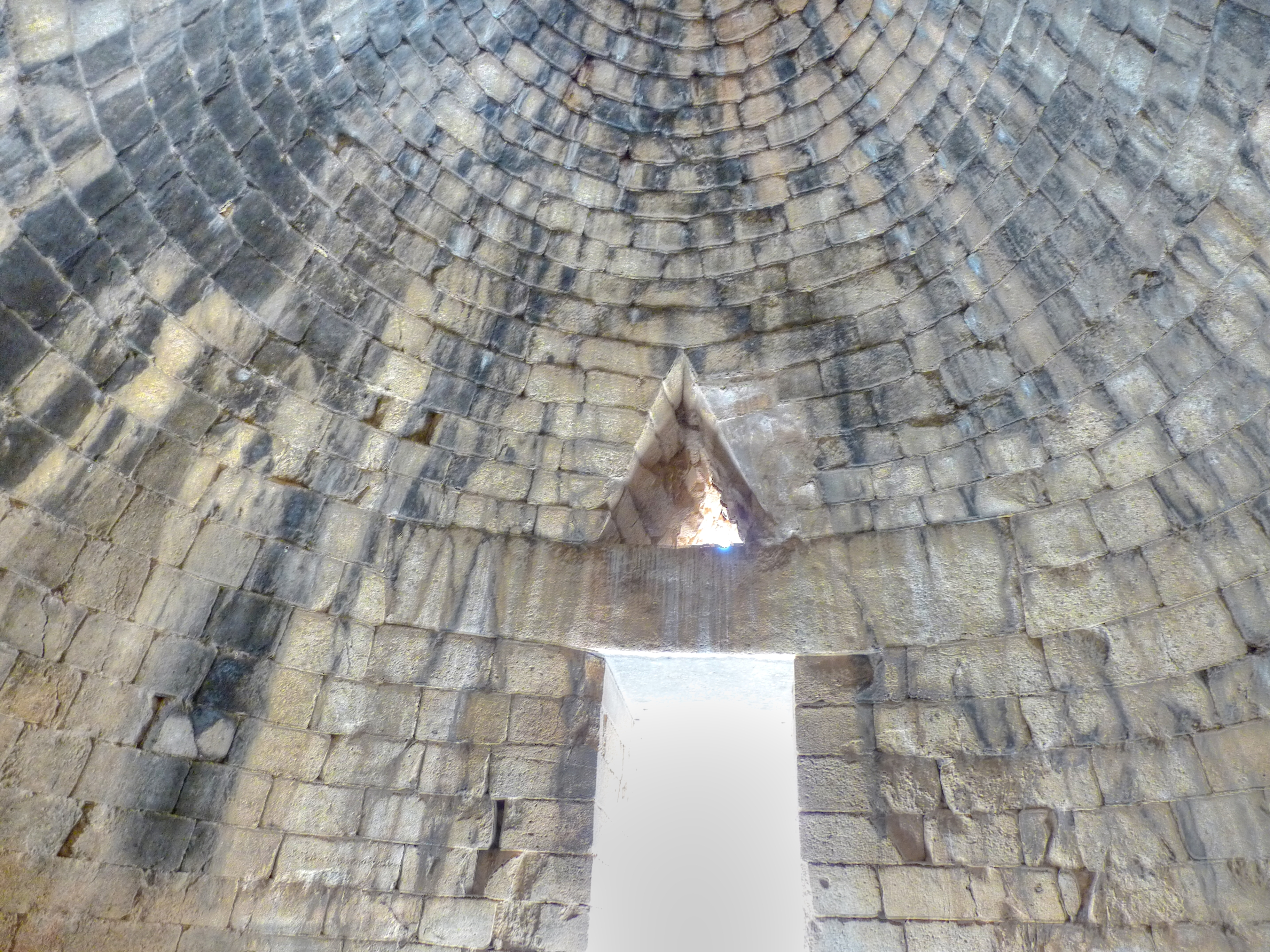 Mycenae Burial chamber 04 HDR